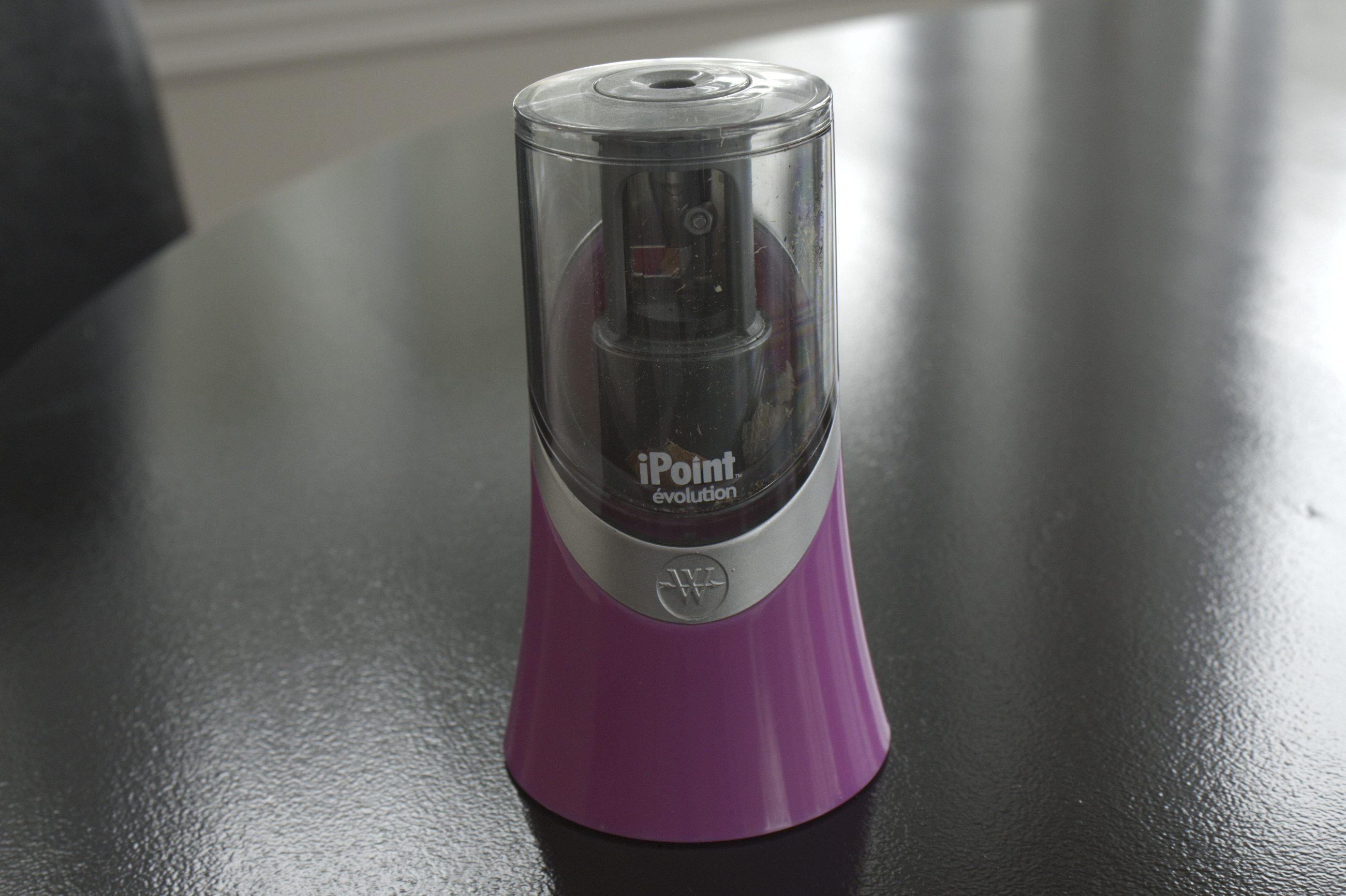 A pink Wescott iPoint Evolution pencil sharpener on a black table